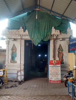 Koothanur sarasvathitemple கூத்தனூர் சரஸ்வதி கோயில்